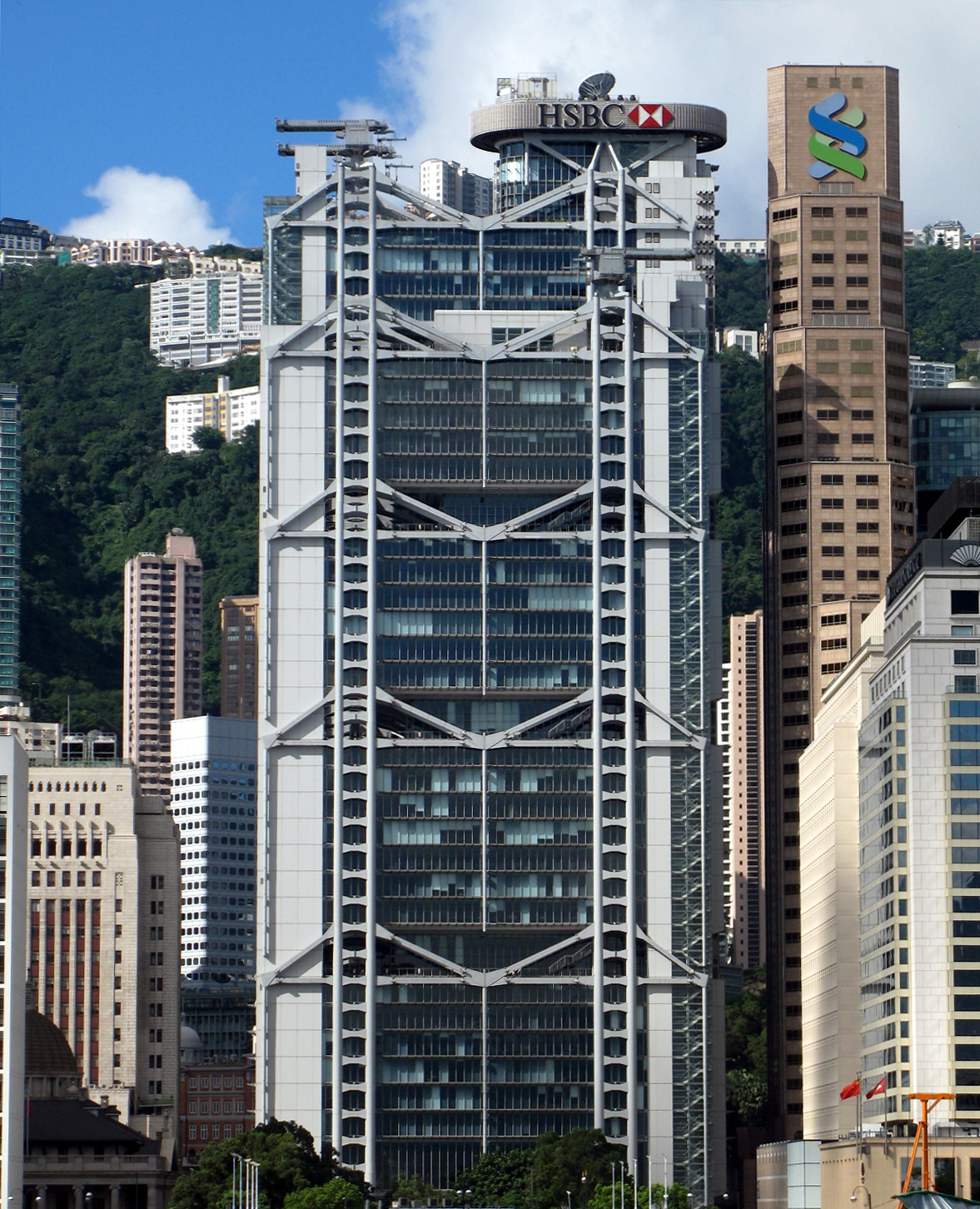 Facade of HSBC Hong Kong headquarters building, and others.